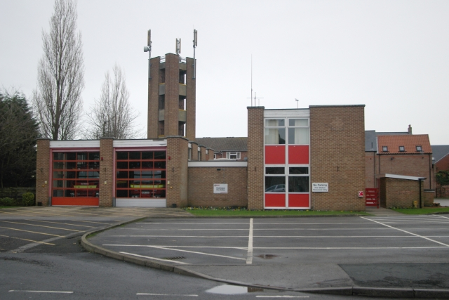 Pocklington fire stationPocklington fire station, Station Road, Pocklington, East Riding of Yorkshire, England.